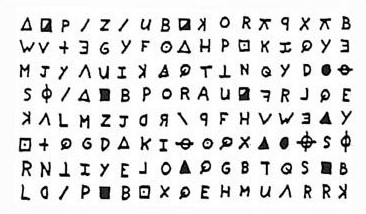 cipher from Zodiac Killer letter, Vallejo Times-Herald, July 31st 1969